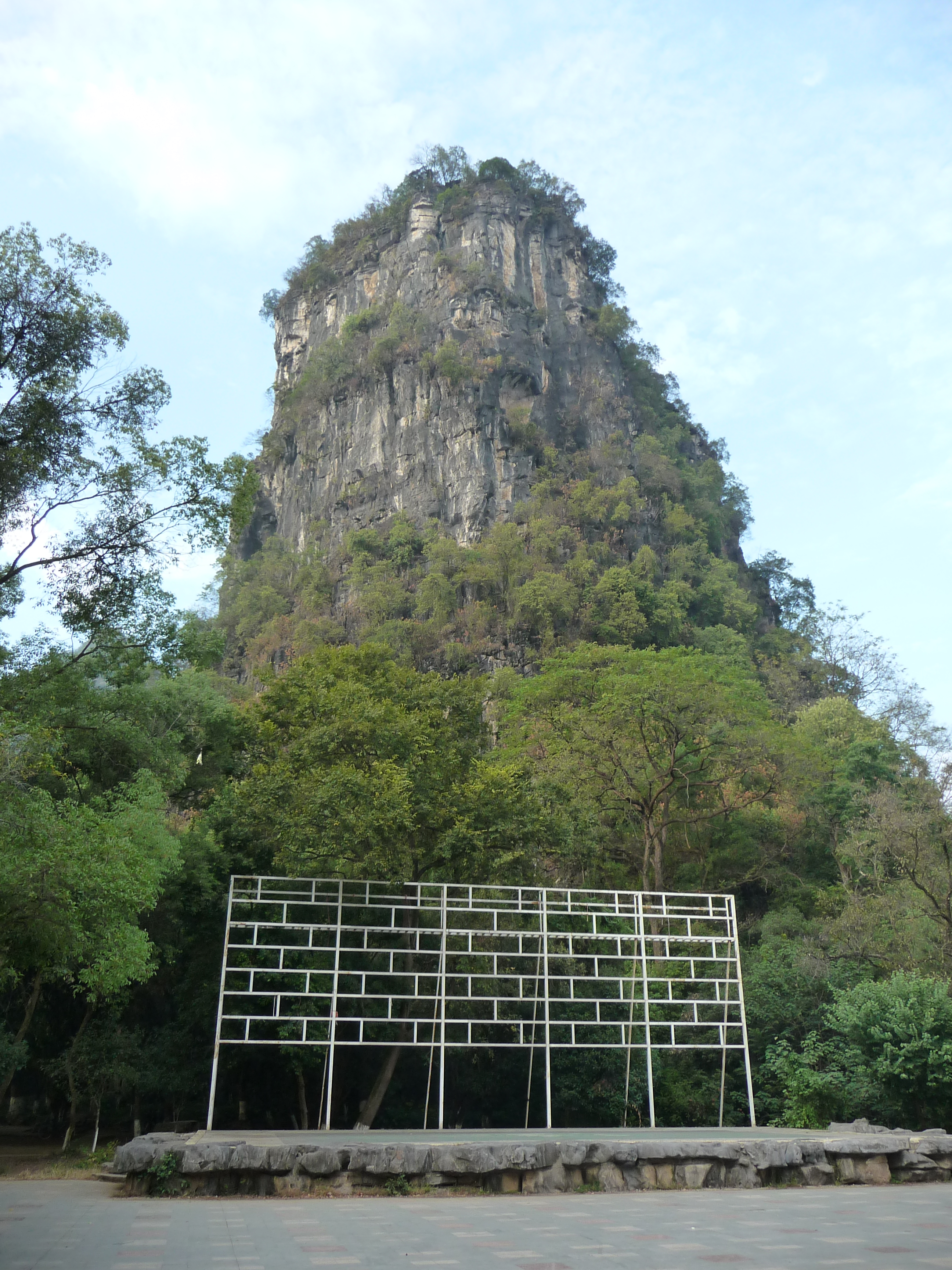 Yangshuo Park is in the western part of Yangshuo. Here is the Man Hill (Xilangdhan) that is said to resemble a young man bowing to a shy young girl represented by Lady Hill (Xiaogushan).